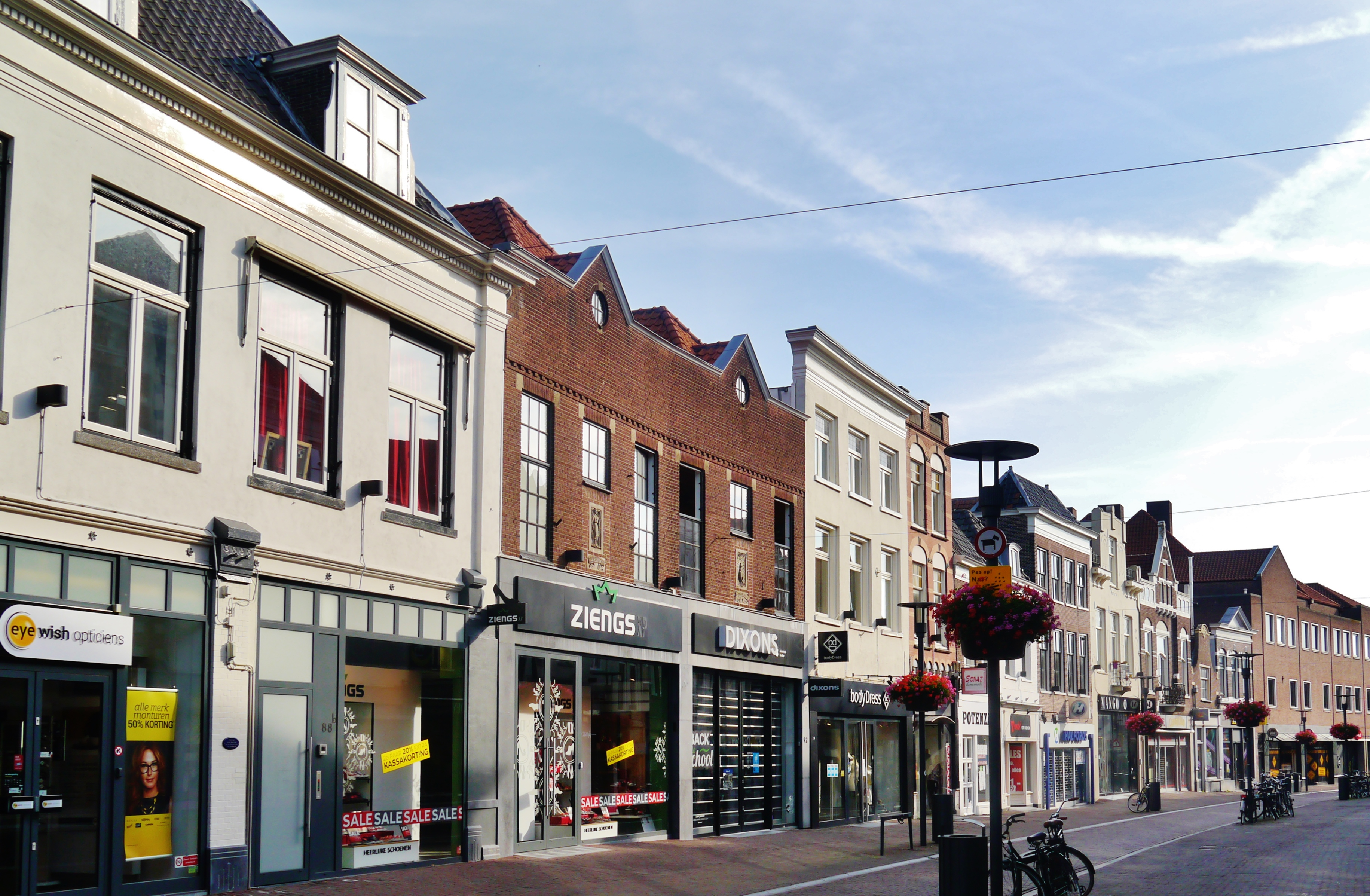 Old City of Amersfoort, Province of Utrecht, Netherlands